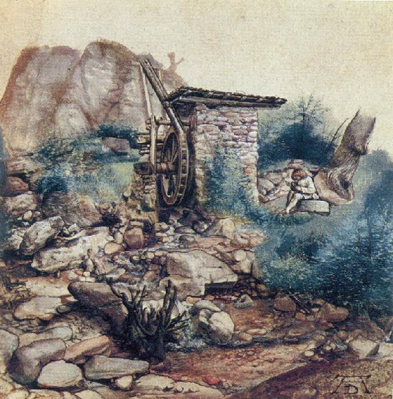 Watercolor by Albrecht Dürer, depicting a mill (now lost) located near Piazzo (Segonzano, Italy)